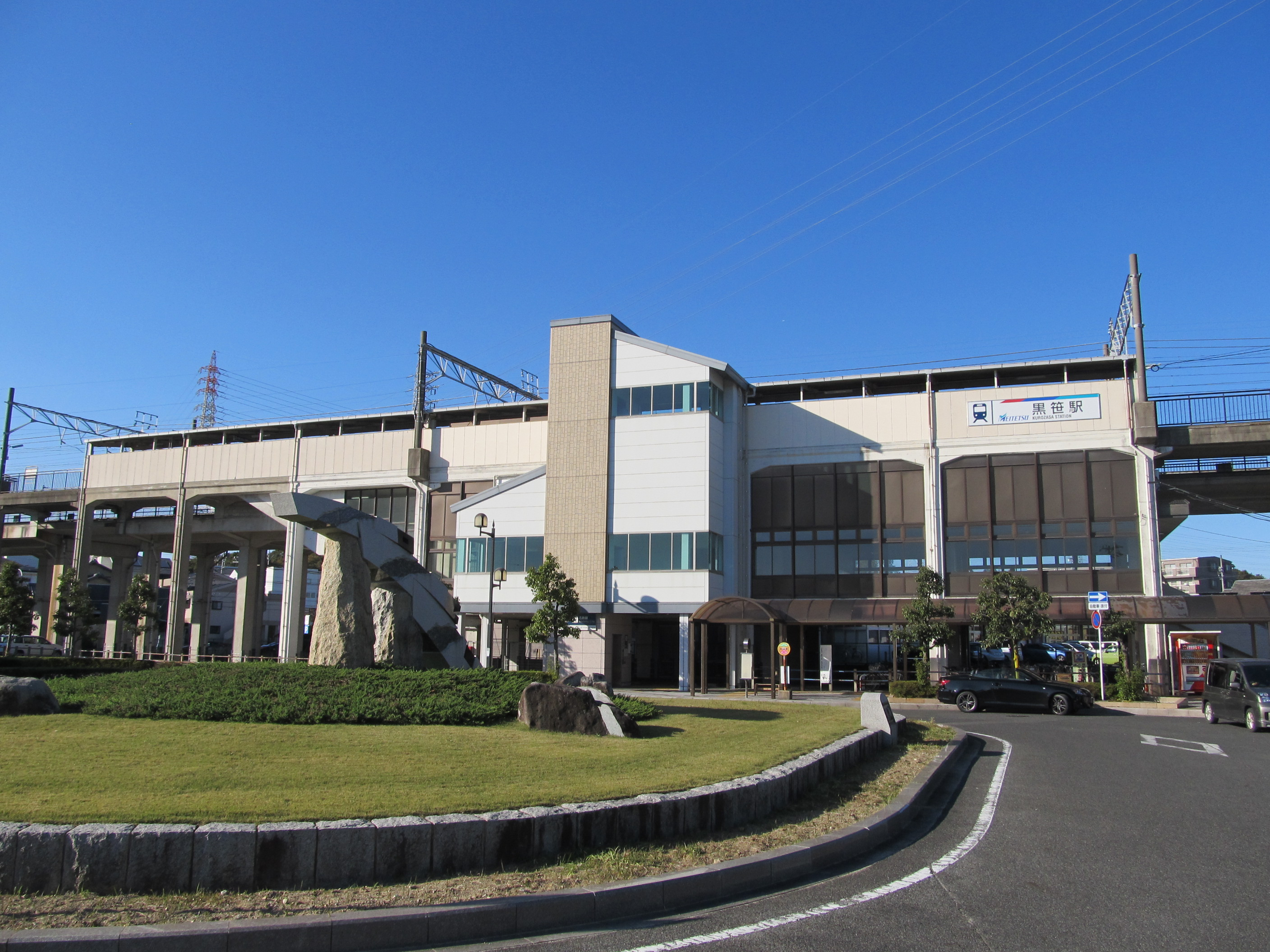 Nagoya Railroad Toyota Line Kurozasa Station Building